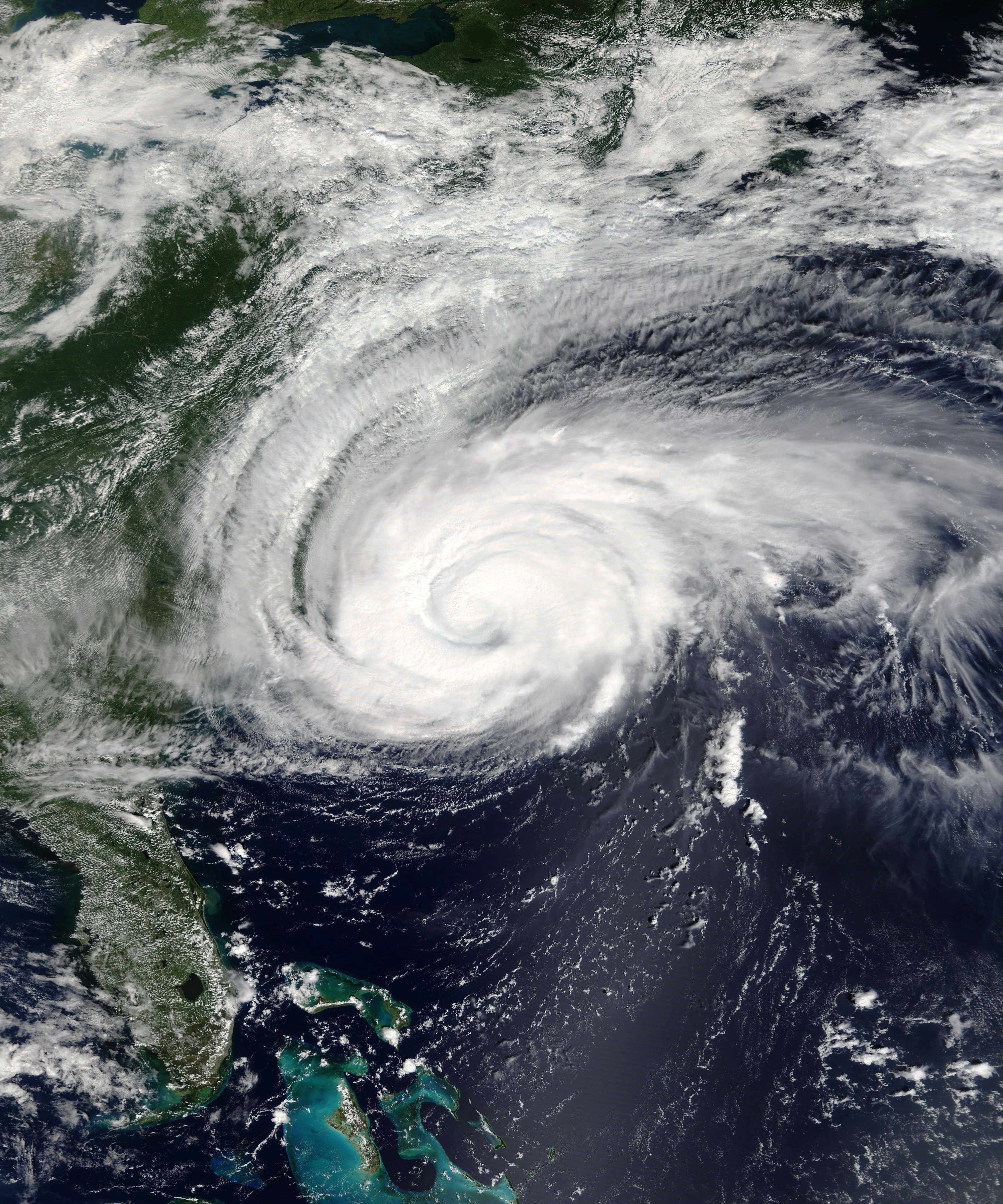 Hurricane Florence on September 13, 2018